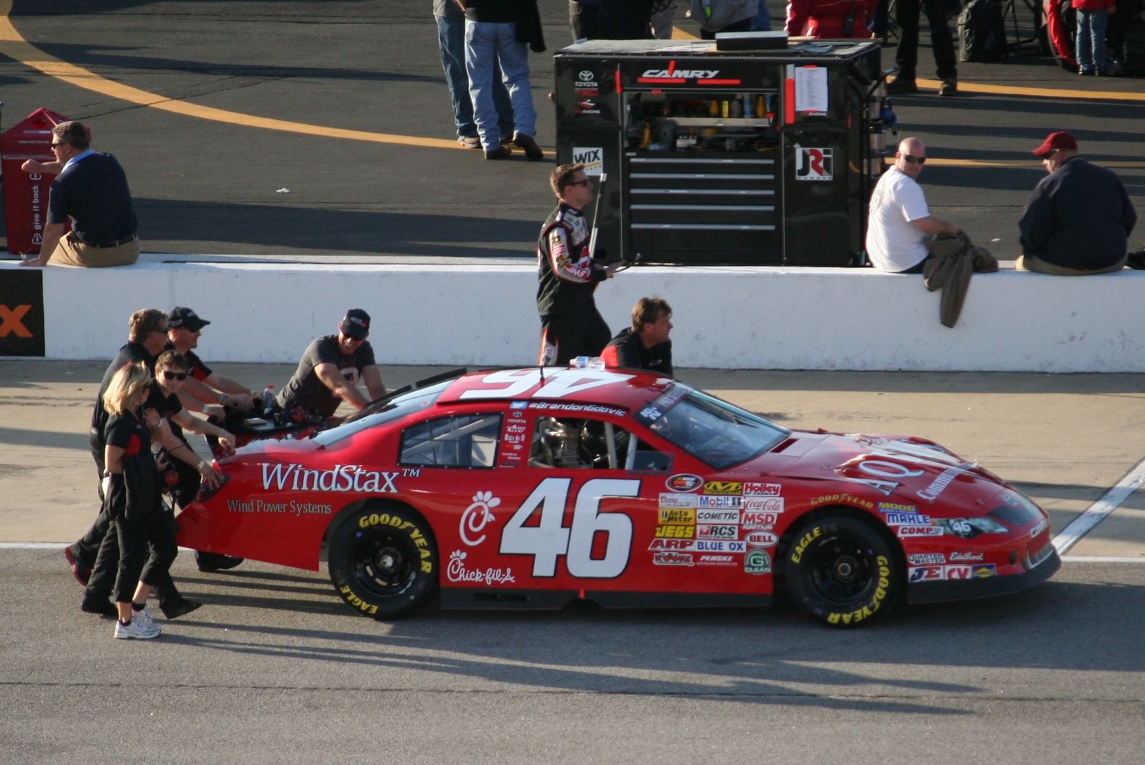 Brandon Gdovic's No. 46 Toyota is pushed on pit road at Richmond International Raceway before the NASCAR K&N Pro Series East Blue Ox 100, April 25 2013.